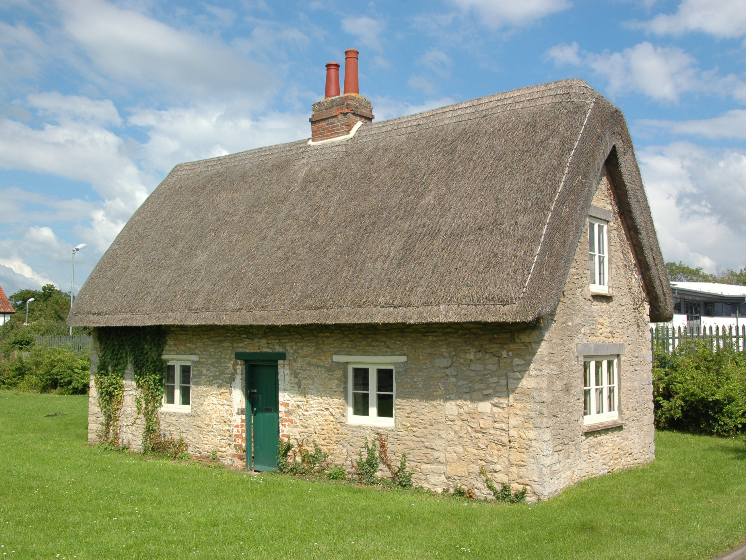 Quainton's Cottage, Cassington Road, Yarnton, Oxfordshire. Built early in the 18th century and now unoccupied.